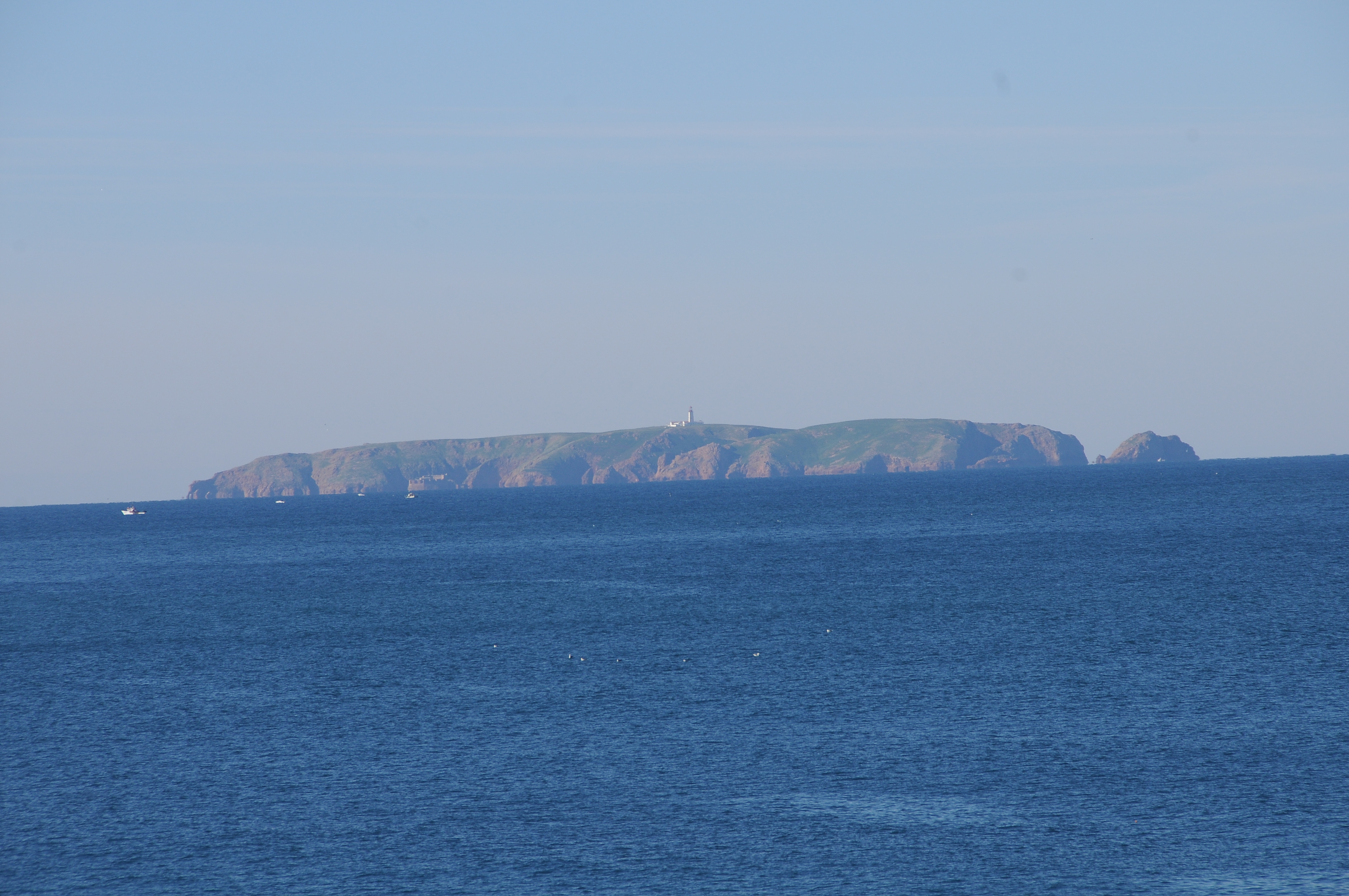 Berlengas island view from Baleal.